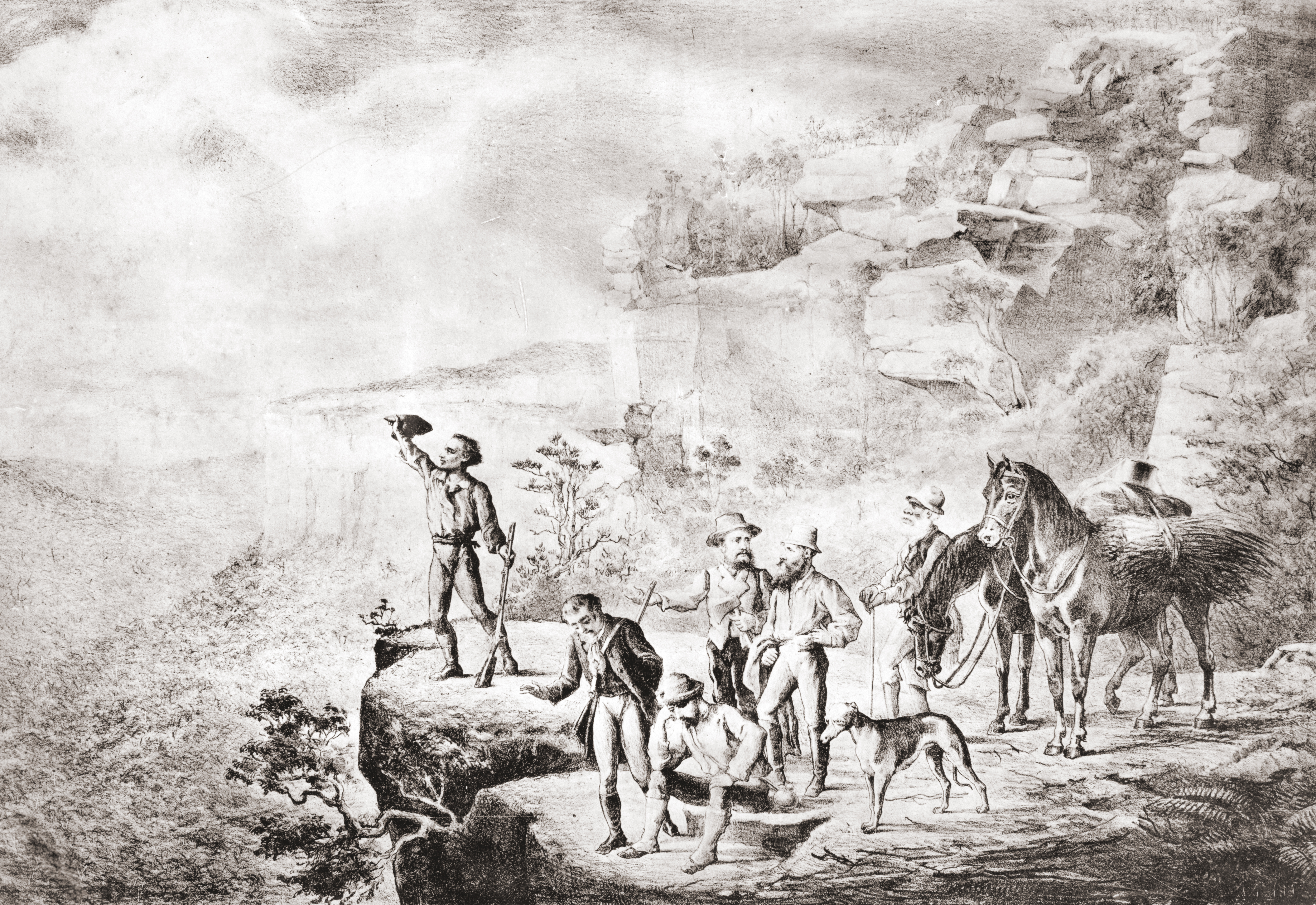 The exploration party at the summit of their expedition